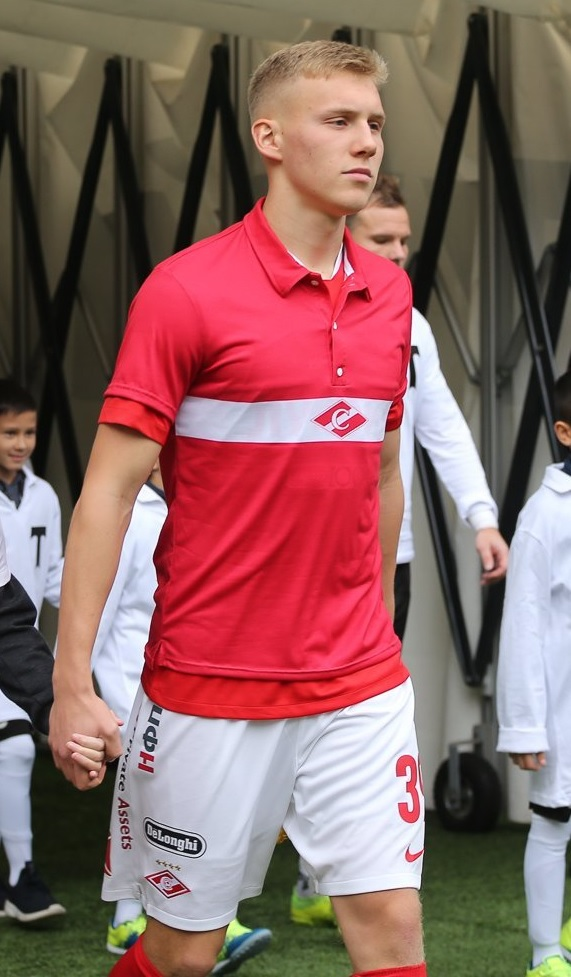 Pavel Maslov with FC Spartak-2 Moscow in a game against FC Torpedo Moscow.